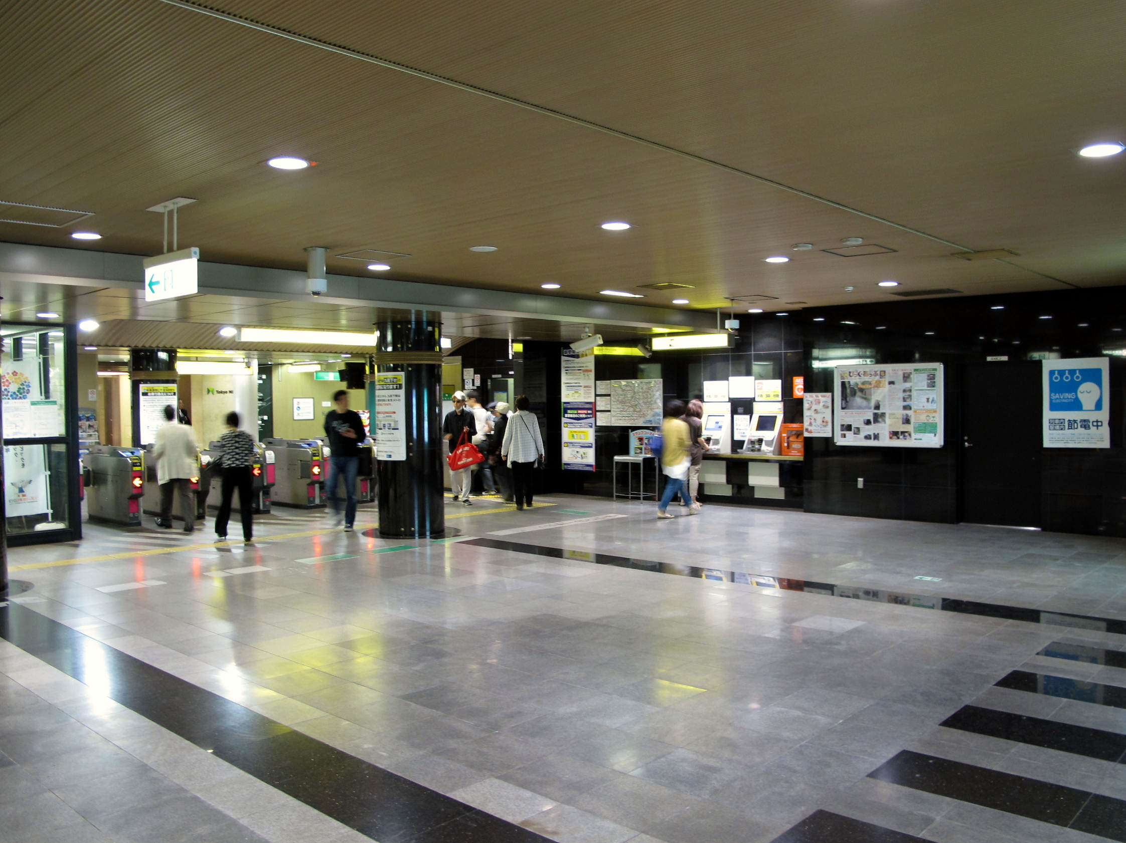 The Toei Oedo Line concourse at Roppongi Station in Tokyo